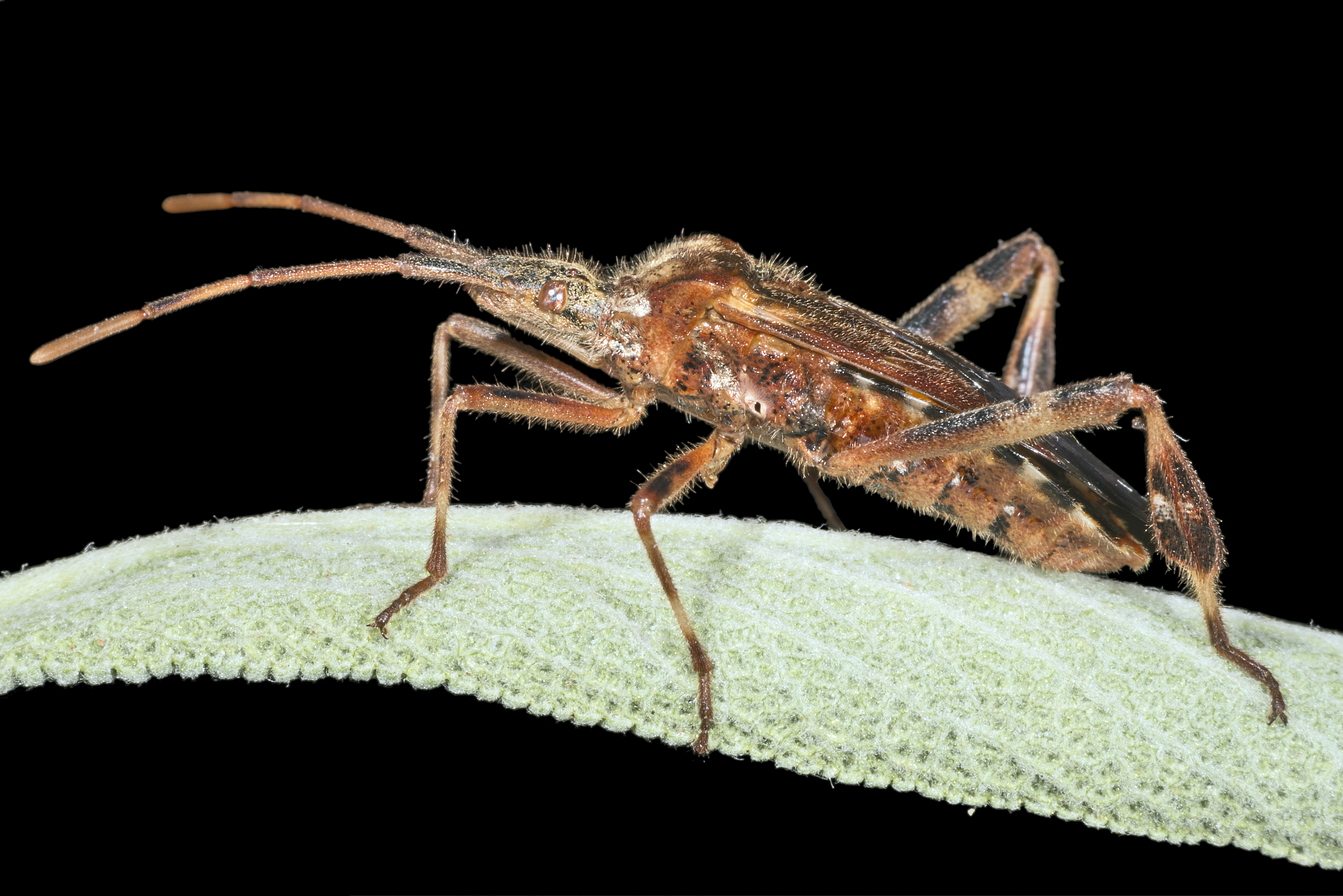 Western conifer seed bug, Side view